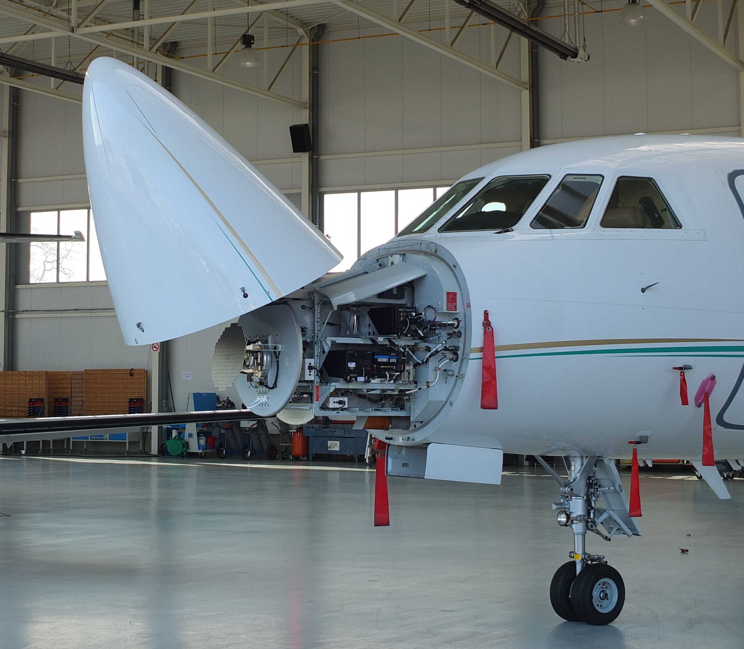 Dassault Falcon 900EX OO-FOI (cn 121) in a hangar at Antwerp International Airport.